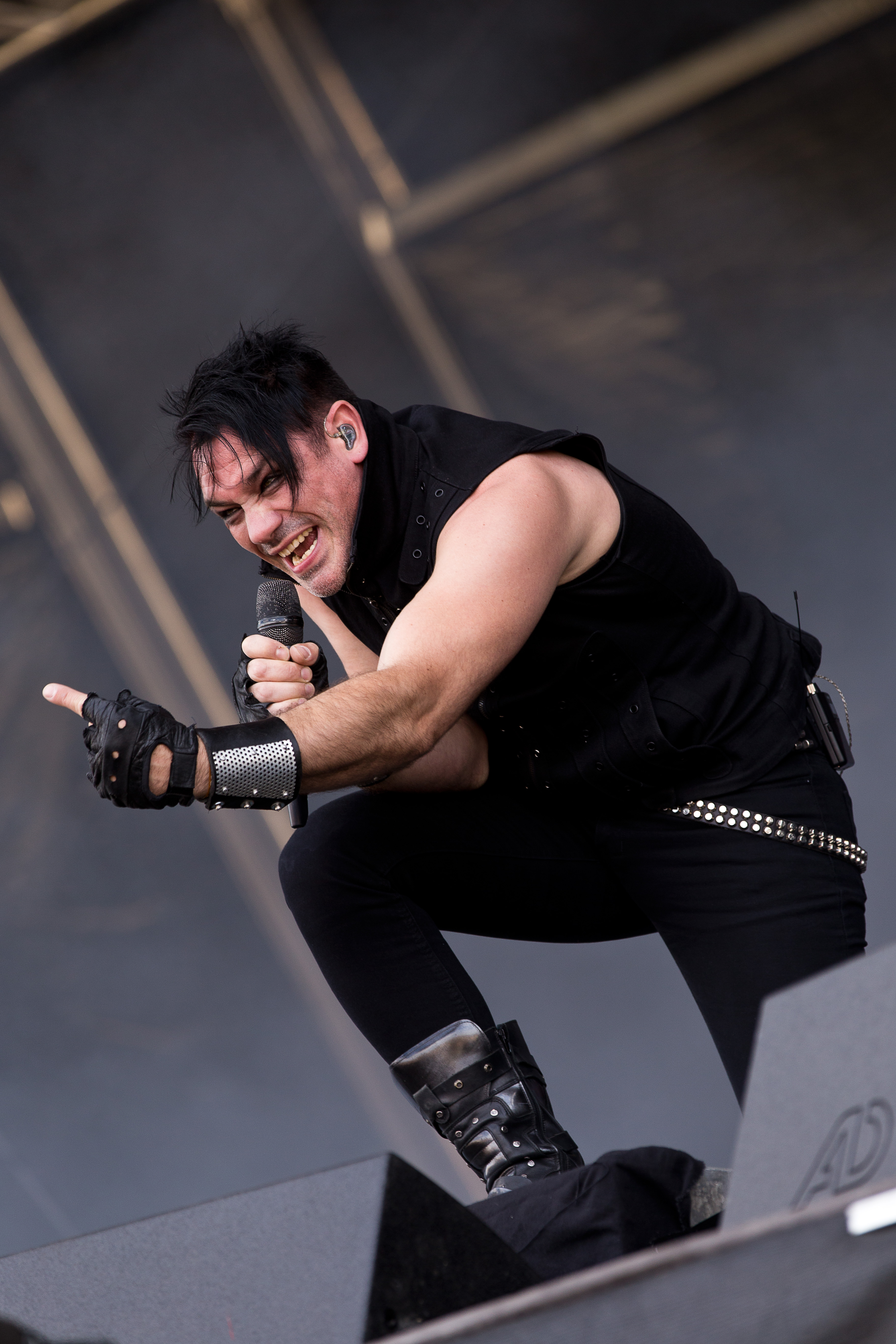 The German Neue Deutsche Härte band Heldmaschine at the Rockharz Open Air 2016 in Ballenstedt/Germany.